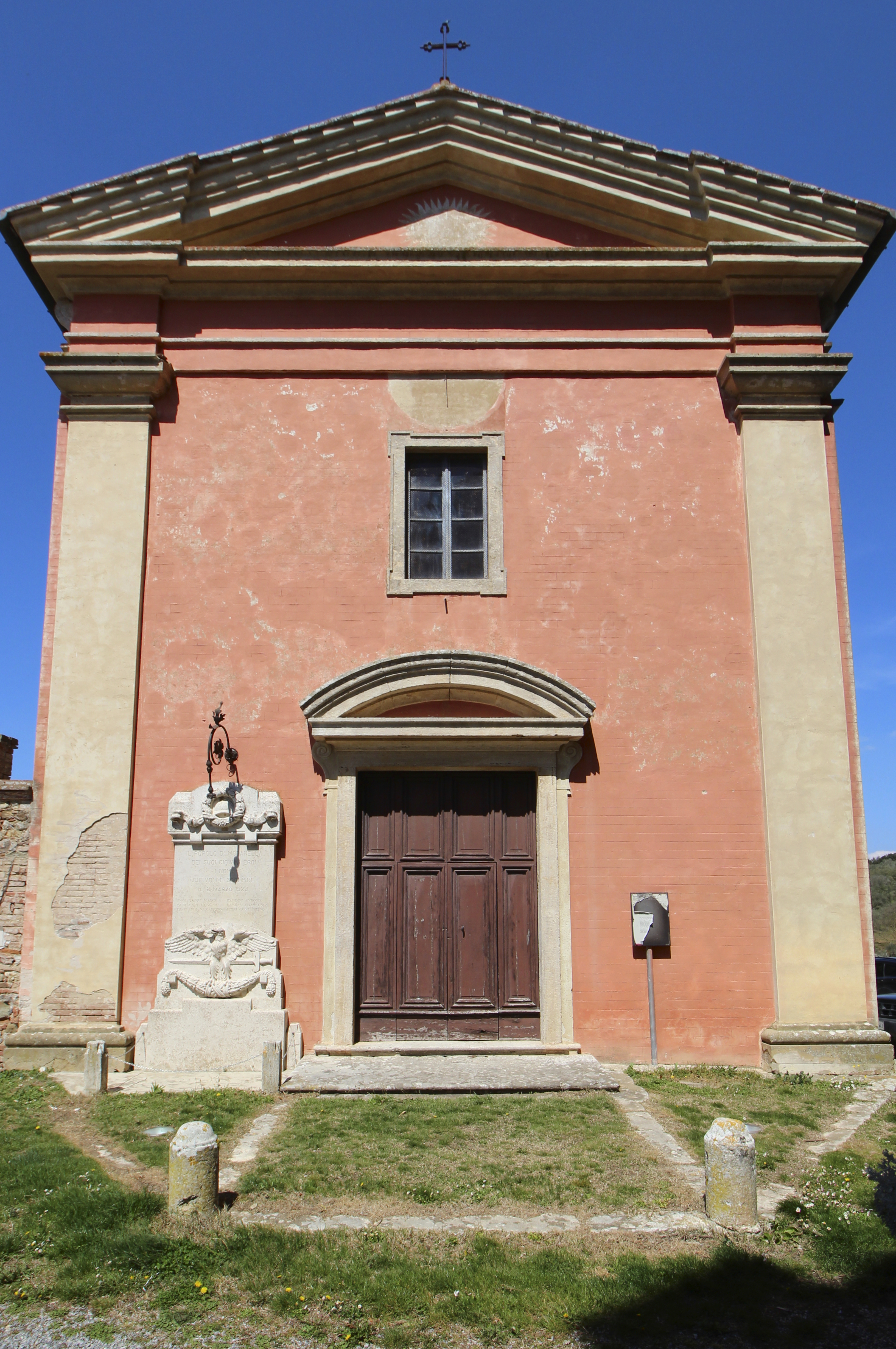 Church San Giovanni Evangelista, in Modanella, hamlet of Rapolano Terme, Province of Siena, Tuscany, Italy